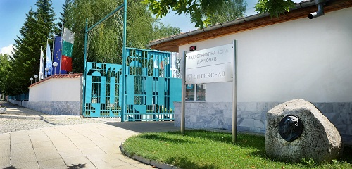 OptixCo front entry